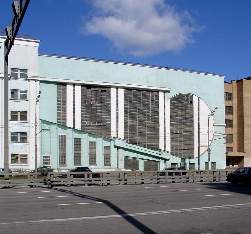 Intourist Garage by Konstantin Melnikov, Moscow, Russia.